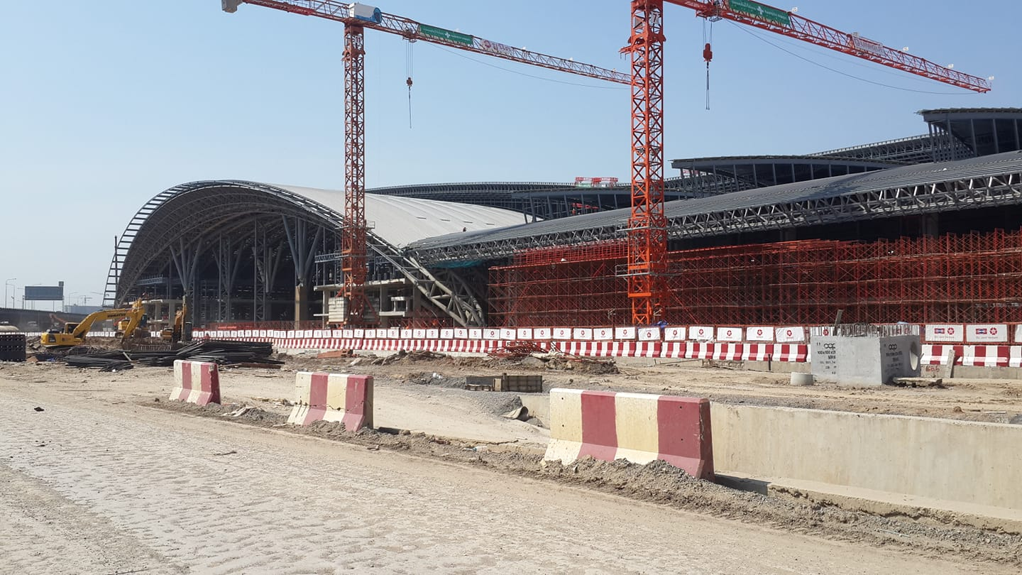 Bang Sue Central Station in Bangkok, Thailand.